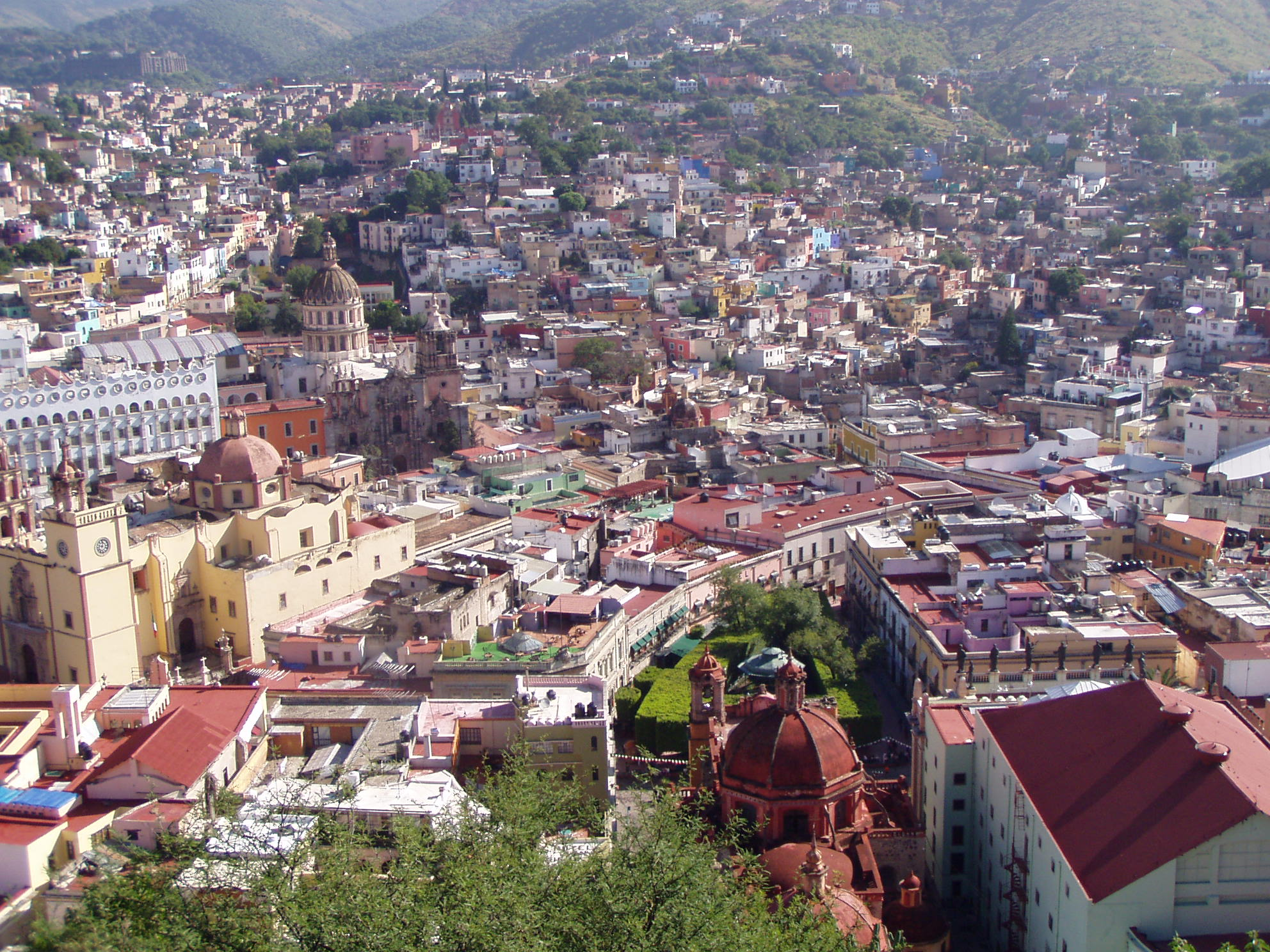 Panoramic view of downtown Guanajuato from atop the Pípila monument, Mexico.